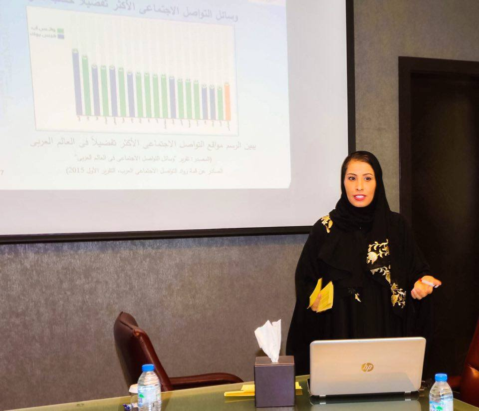 نورا المطيري - إعلام مواطن - محاضرة في منتدى تطور شبكات التواصل الإجتماعي Noura Almoteari - Citizen Media